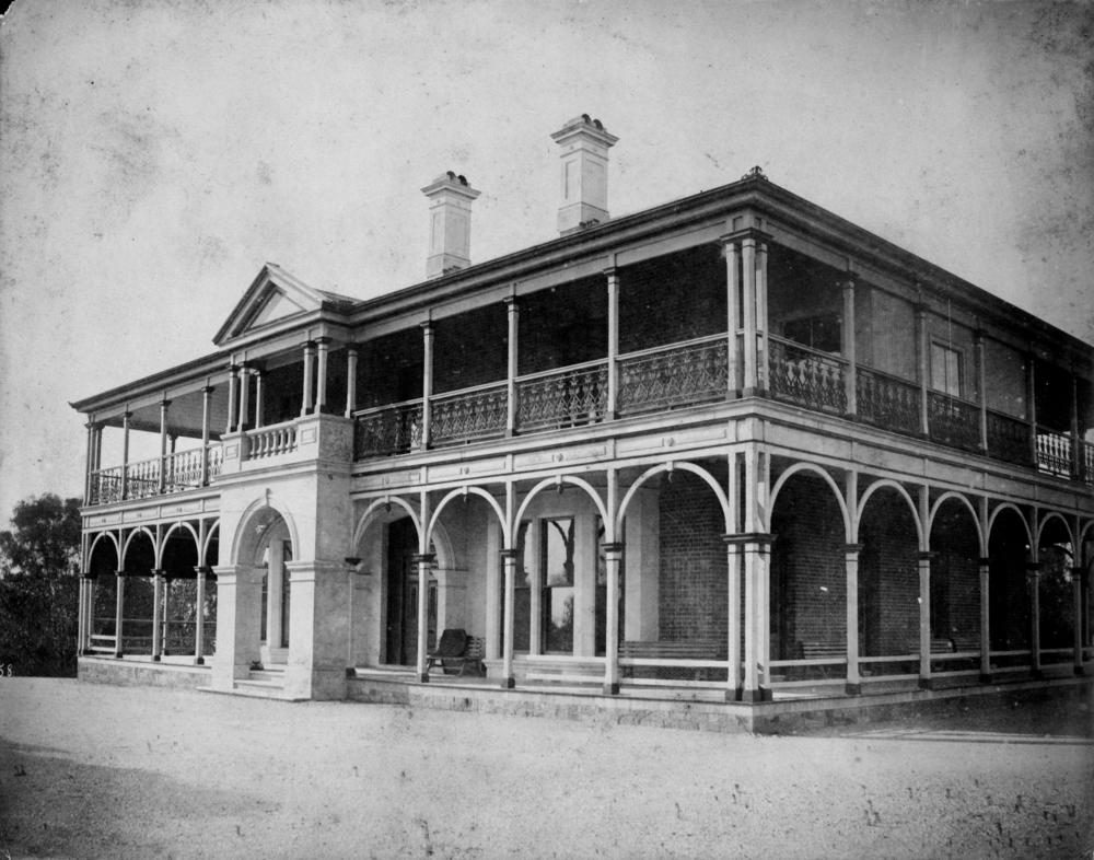 Gracious residence, Whytecliffe, at Albion, 1930.